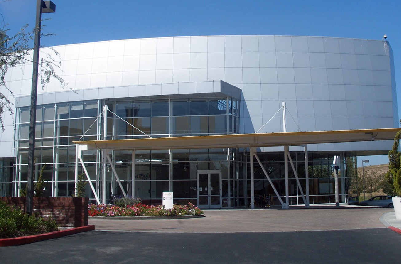 Adjusted version of :Image:Googleplexlobby.jpg (rotated to correct tilt).